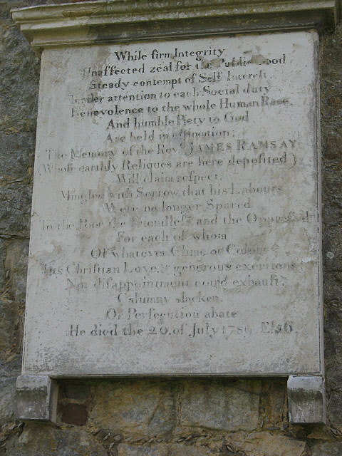 Teston, St Peter & St Paul: Ramsay monument A monument on the outside wall of the church to James Ramsay, former Vicar of the parish and campaigner against the slave trade, who died in the Revolutionary year of 1789. The full text of the monument, in typically florid 18th century style, reads: "While firm integrity, unaffected zeal for the public good, steady contempt of self interest, tender attention to each social duty, benevolence to the whole human race, and humble piety to God are held in estimation: the memory of the Rev'd JAMES RAMSAY (whose earthly reliques are here deposited) will claim respect, mingled with sorrow that his labours were no longer spared to the poor, the friendless and the oppressed, for each of whom of whatever clime or colony his Christian Love and generous exertions nor disappointment could exhaust, calumny slacken or persecution abate. He died the 20th July 1789, Et. [aged] 56"